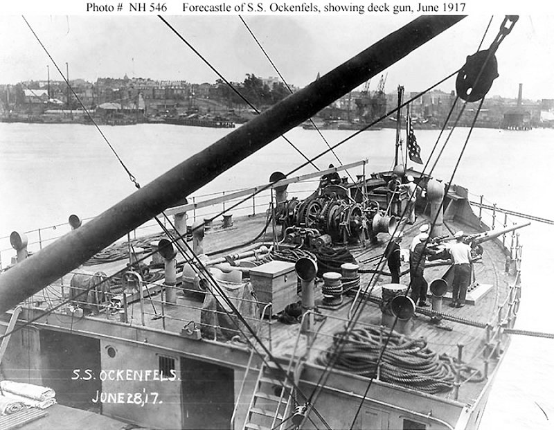 View looking forward over the ship's forecastle, 28 June 1917. Note 3"/50 gun mounted on the forecastle deck's starboard side. Though not in commissioned U.S. Navy service, Ockenfels is flying a Navy jack at her bow, perhaps to signify that Navy armed guard personnel are manning her guns. U.S. Navy photo NH 546